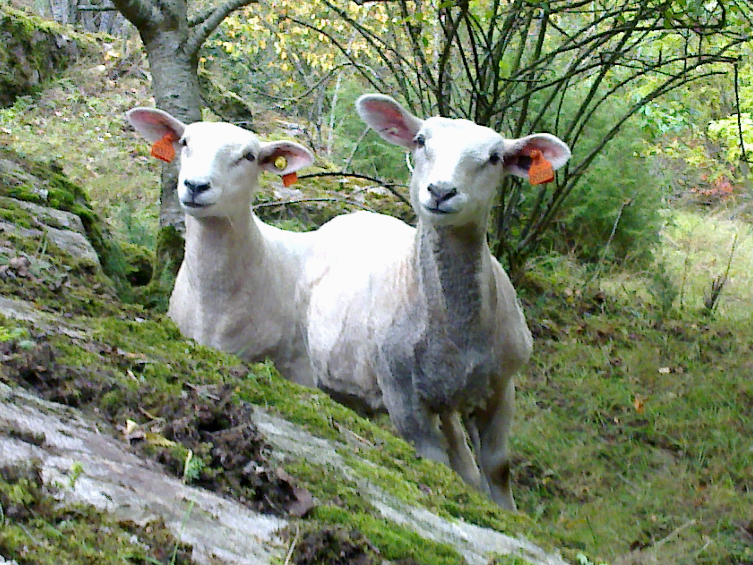 This is a picture of two lambs.